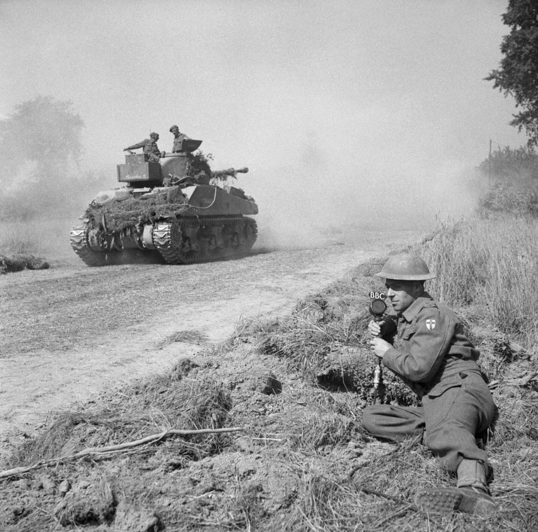 Pierre Lefevre, a Free French war correspondent, making a broadcast as a Sherman Firefly tank moves up to the battle area, Normandy, 5 August 1944. Pierre Lefevre, a Free French war correspondent, making a broadcast as a Sherman Firefly tank moves up to the battle area, 5 August 1944.